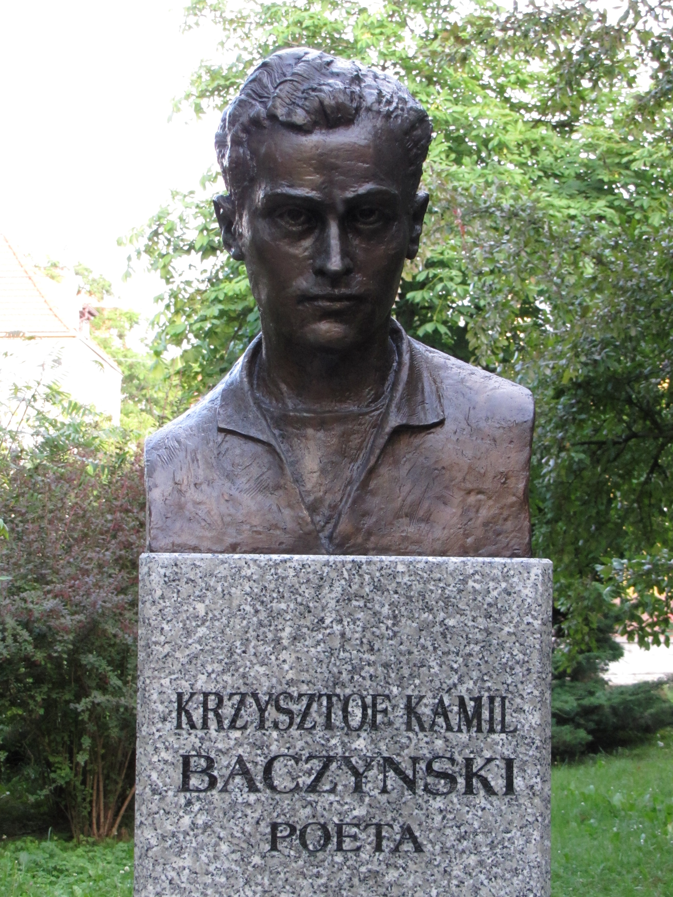 Bust of Krzysztof Kamil Baczyński in Celebrity Alley in Kielce (Poland)